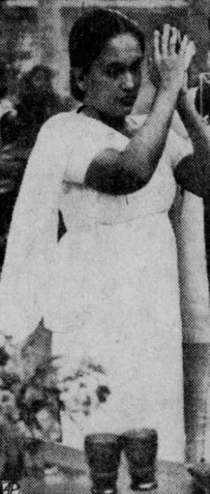 Sirimavo Bandaranaike, Praying Premier, 1962